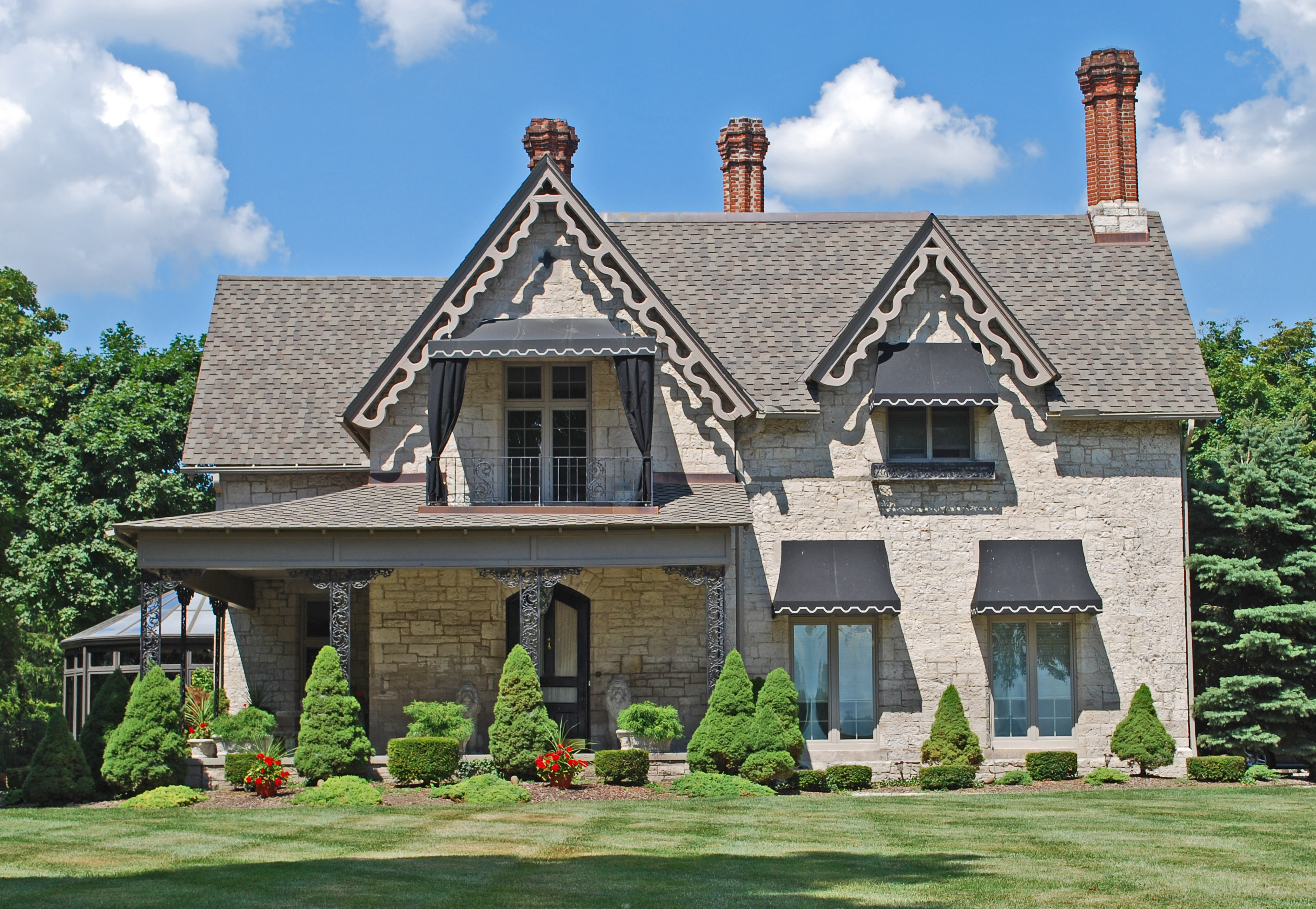 House, East River Rd Historic District, Grosse Ile MI